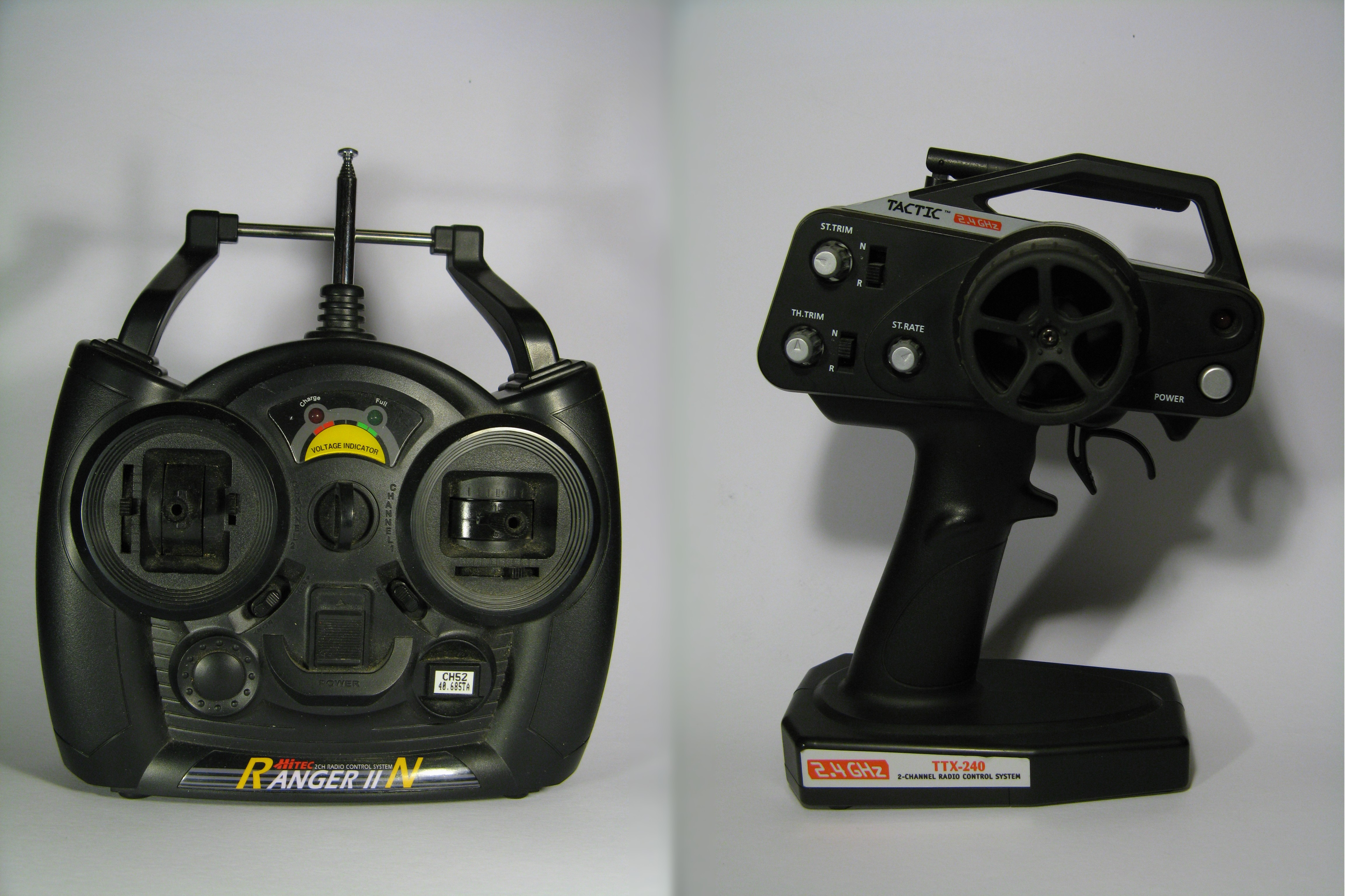 Right: Radio controler, 2,4Ghz, Tactic, type TTX-240 Left: Radio controler, 40mHz, Hitec, type Ranger II )